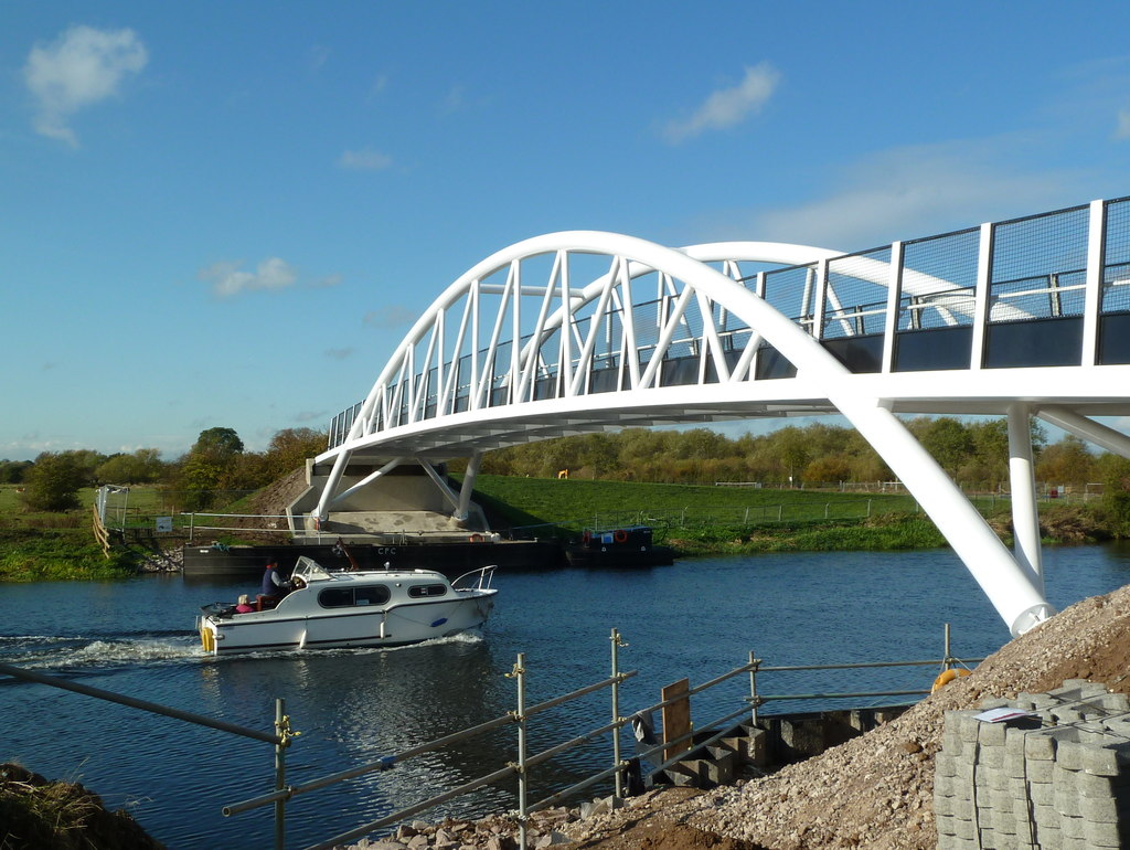 The new Long Horse bridge is situated at the confluence of the Rivers Trent and Derwent and the Trent & Mersey Canal and is expected to open in November 2011. It replaces a 1934 concrete bridge knocked down by British Waterways in 2003 because it was deemed unsafe. It has taken 8 years and £1.4m to get this replacement that will restore the public footpath between Shardlow and Sawley.